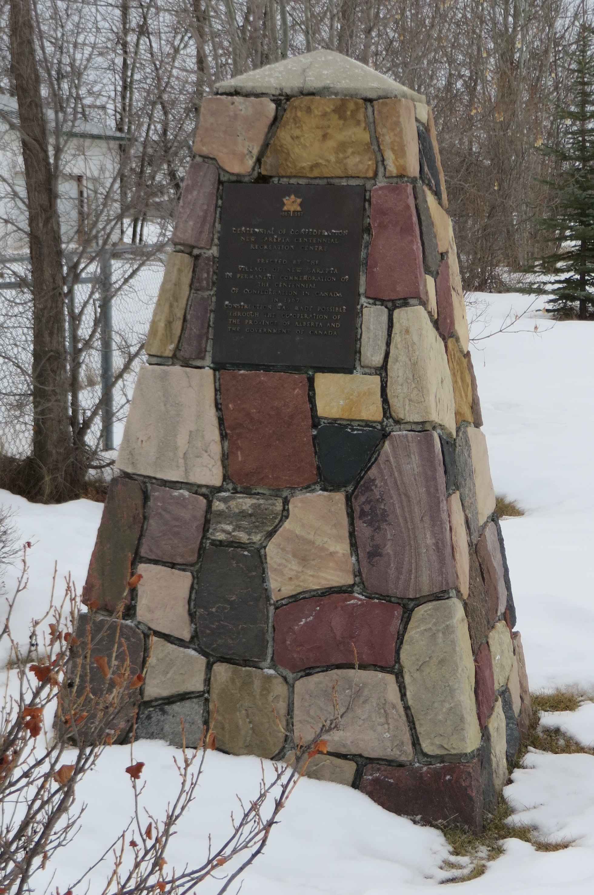 Cairn marking the 1967 Canadian Centennial in New Sarepta, Alberta.